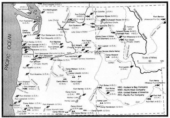 Map of 19th Century military outposts in the Pacific Northwest